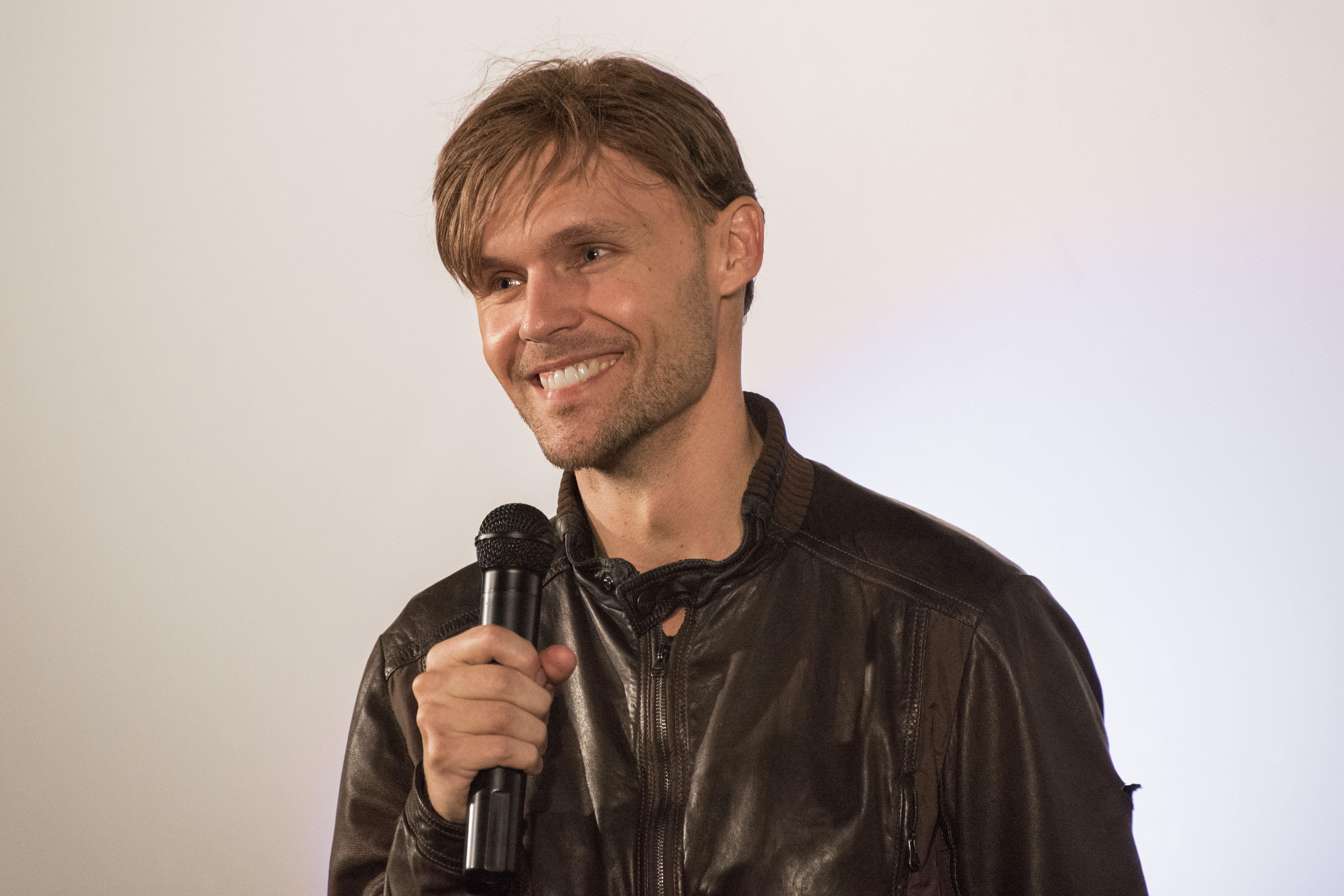 Scott Haze at the New York Film Critics Series première of "Child of God" in July 2014.